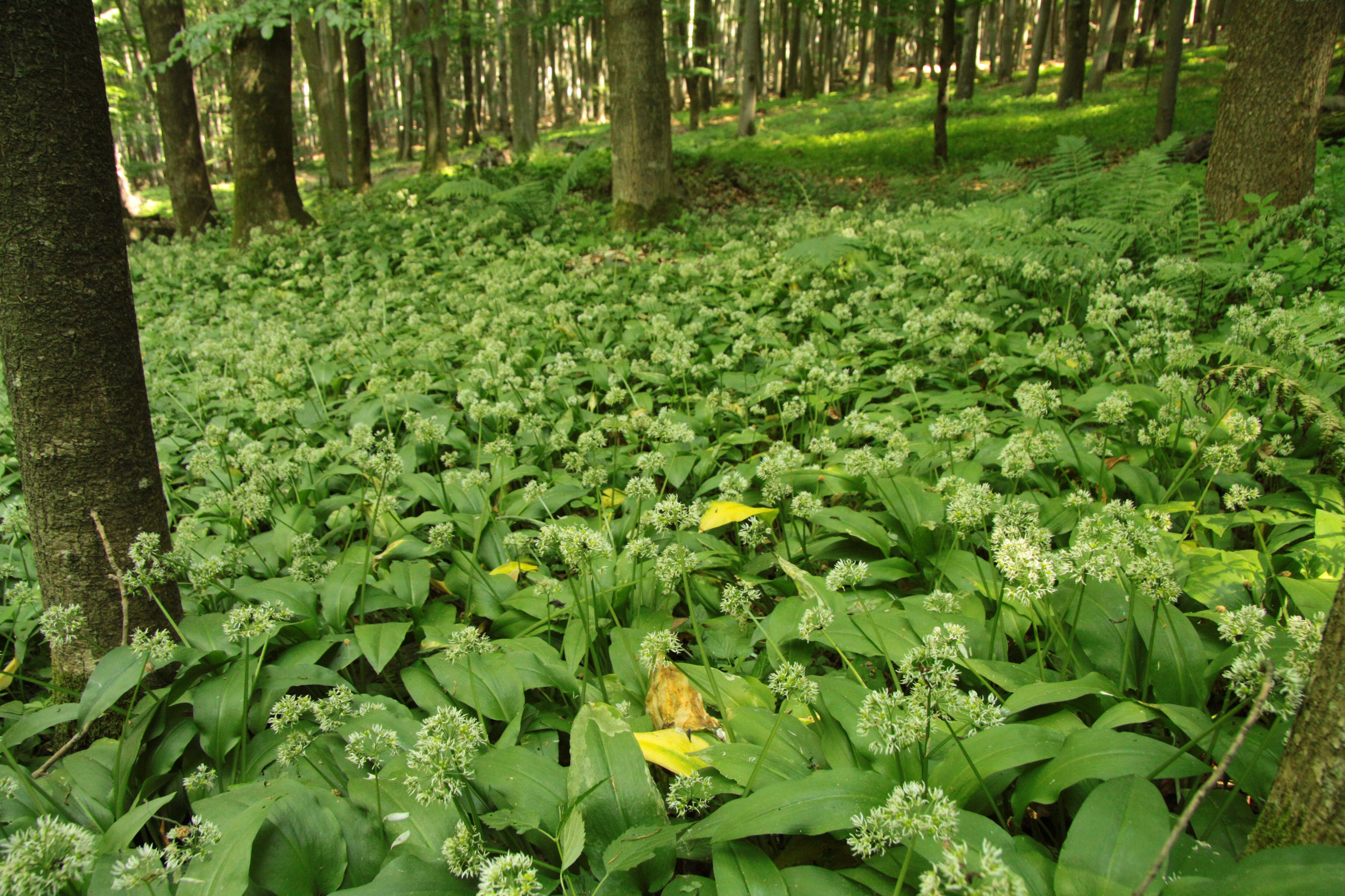 Natural monument V Houlištích near Polánka, Plzeň-South District, Czech Republic - Google Maps - Google Earth